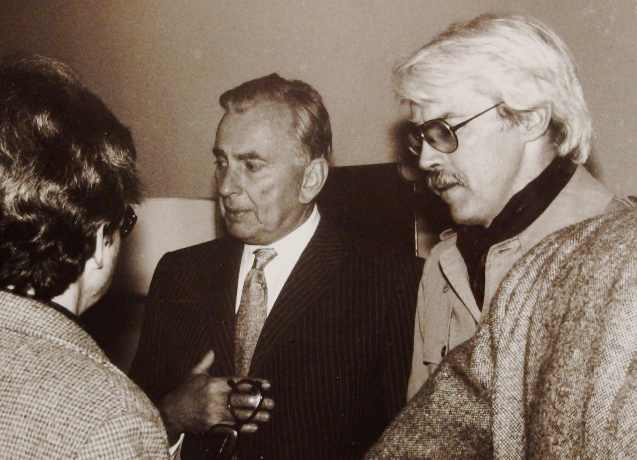 American authors Gore Vidal and Michael Mewshaw conversing at a party at Vidal's home in Ravello, Italy, circa 1978